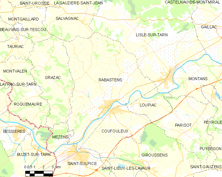 Map of French municipality Rabastens